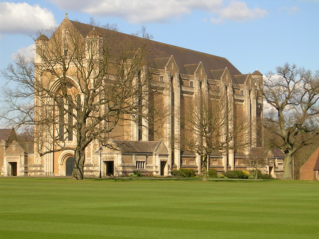 Charterhouse School Chapel. Charterhouse School Chapel as viewed from the cricket field adjacent to the Peter May Pavilion